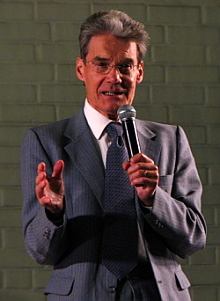 Rev Kalevi Lehtinen in Helsinki.